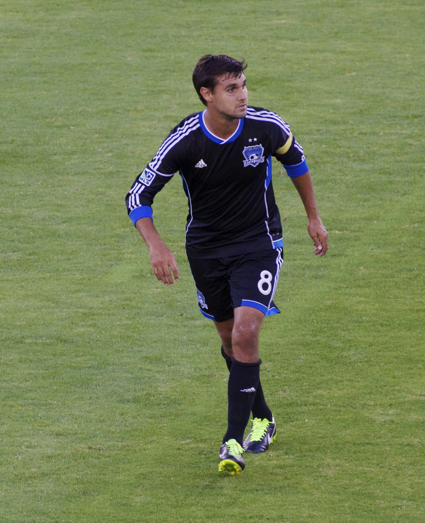 Chris Wondolowski, Stanford Stadium, SJ Earthquakes vs LA Galaxy, Saturday 2013-06-29